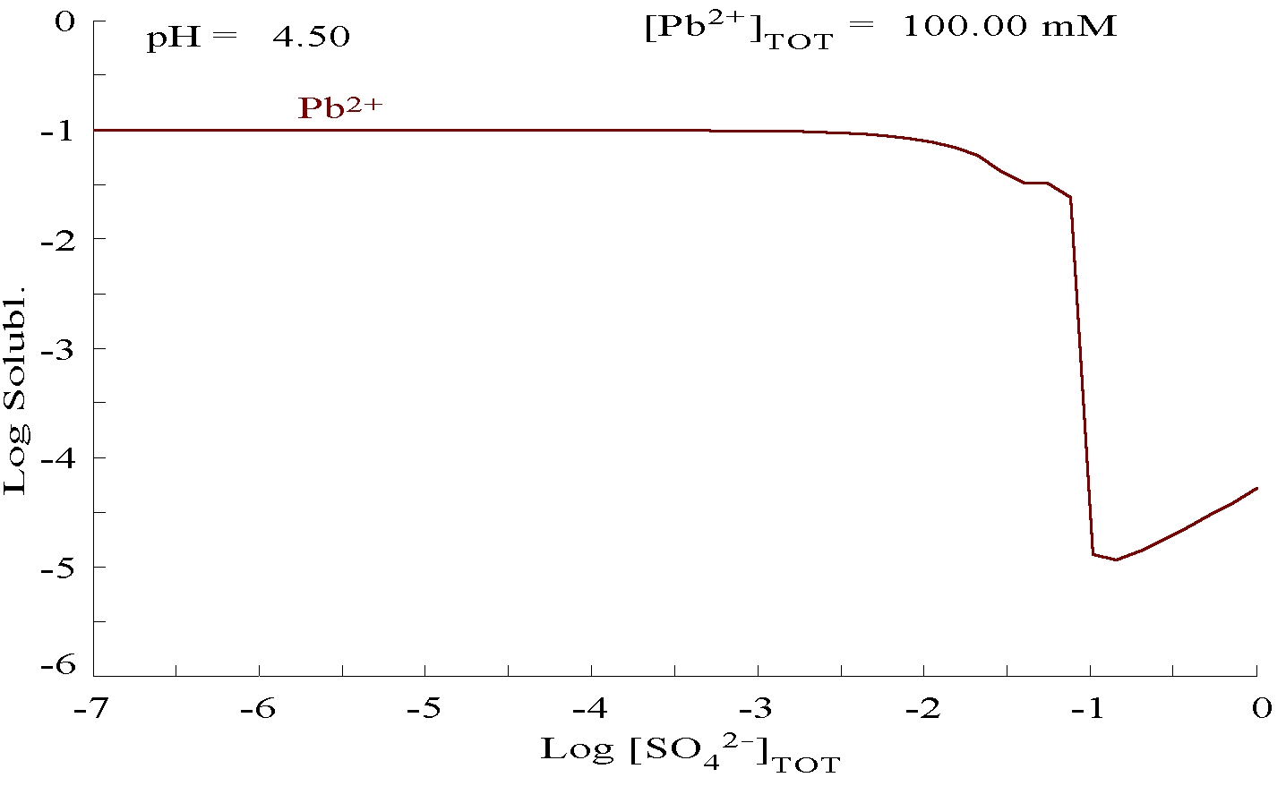 Plot showing aqueous concentration of dissolved Pb2+ (max available concentration = 0.1M) as a function of SO42− at pH=4.5, which is the max pH at which 0.1M Pb2+ can exist.